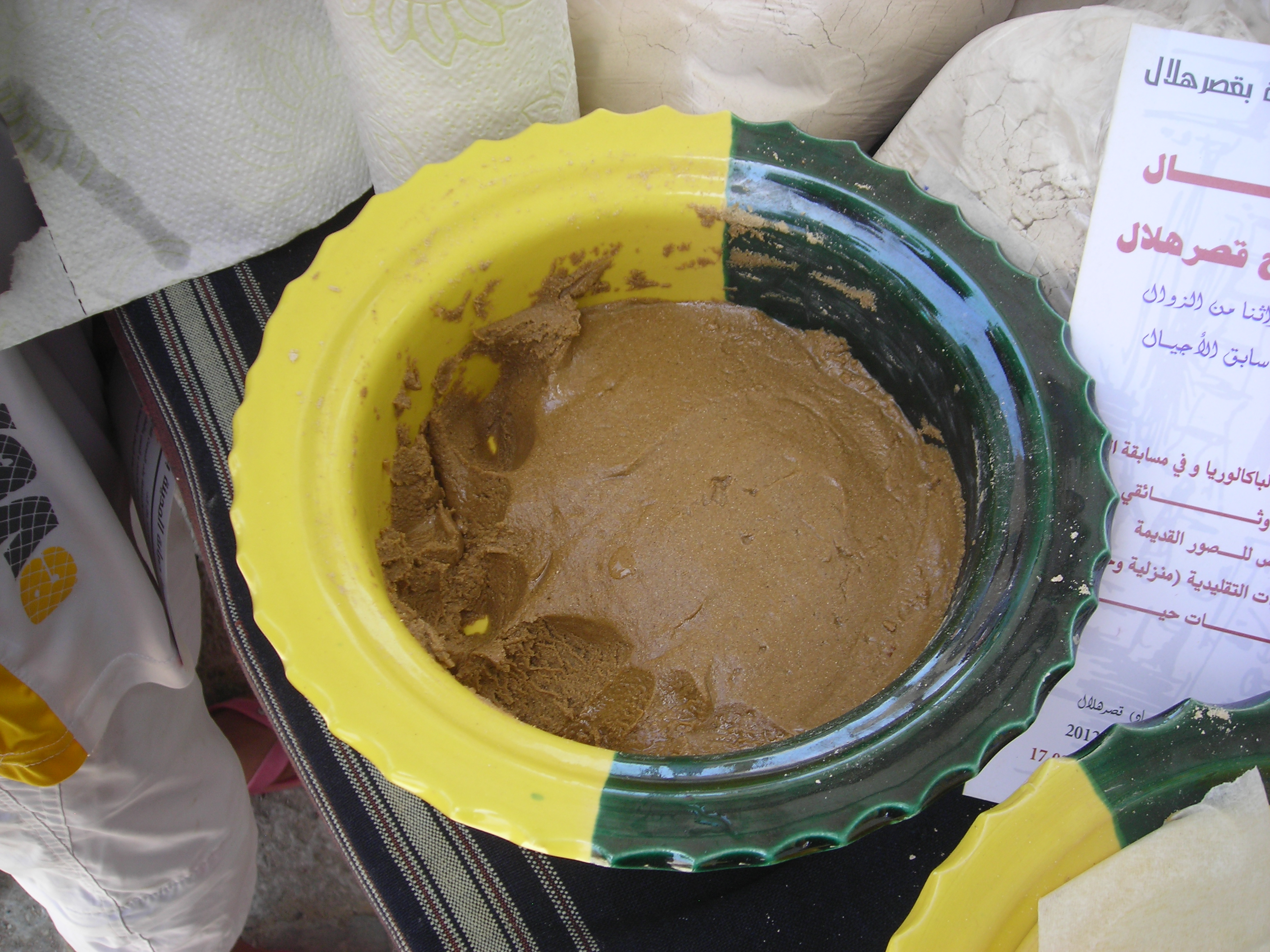 Bsissa